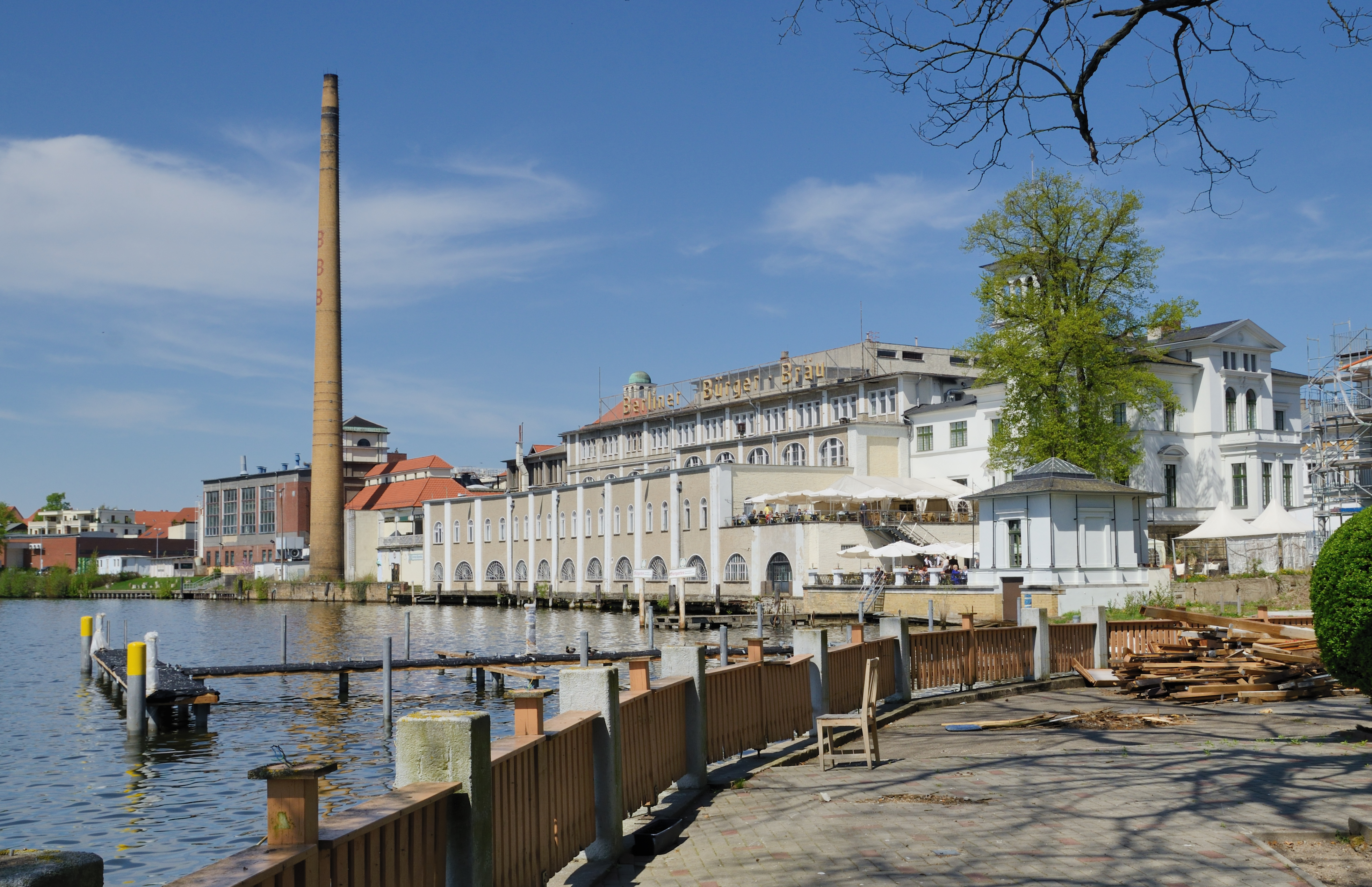 Berlin-Friedrichshagen: brewery "Bürgerbräu"